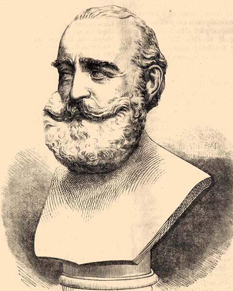 Gr. SZÉCHENYI ISTVÁN MELLSZOBRA. (Gasser bécsi szobrász mintája után.) 1848. szeptemberétől haláláig 1860. április 8-ig a az akkor még vidékies, később Bécs belterületévé vált városrészben, a döblingi.Görgen Gyógyintézetben élt gróf Széchenyi István, a legnagyobb magyar. Itt mintázta róla ezt a szobrot Hans Anton Gasser, amelynek másolatát a gróf halálának 130. évfordulóján, 1990. április 8-án Bécsben újra elhelyezte a Széchenyi Kör